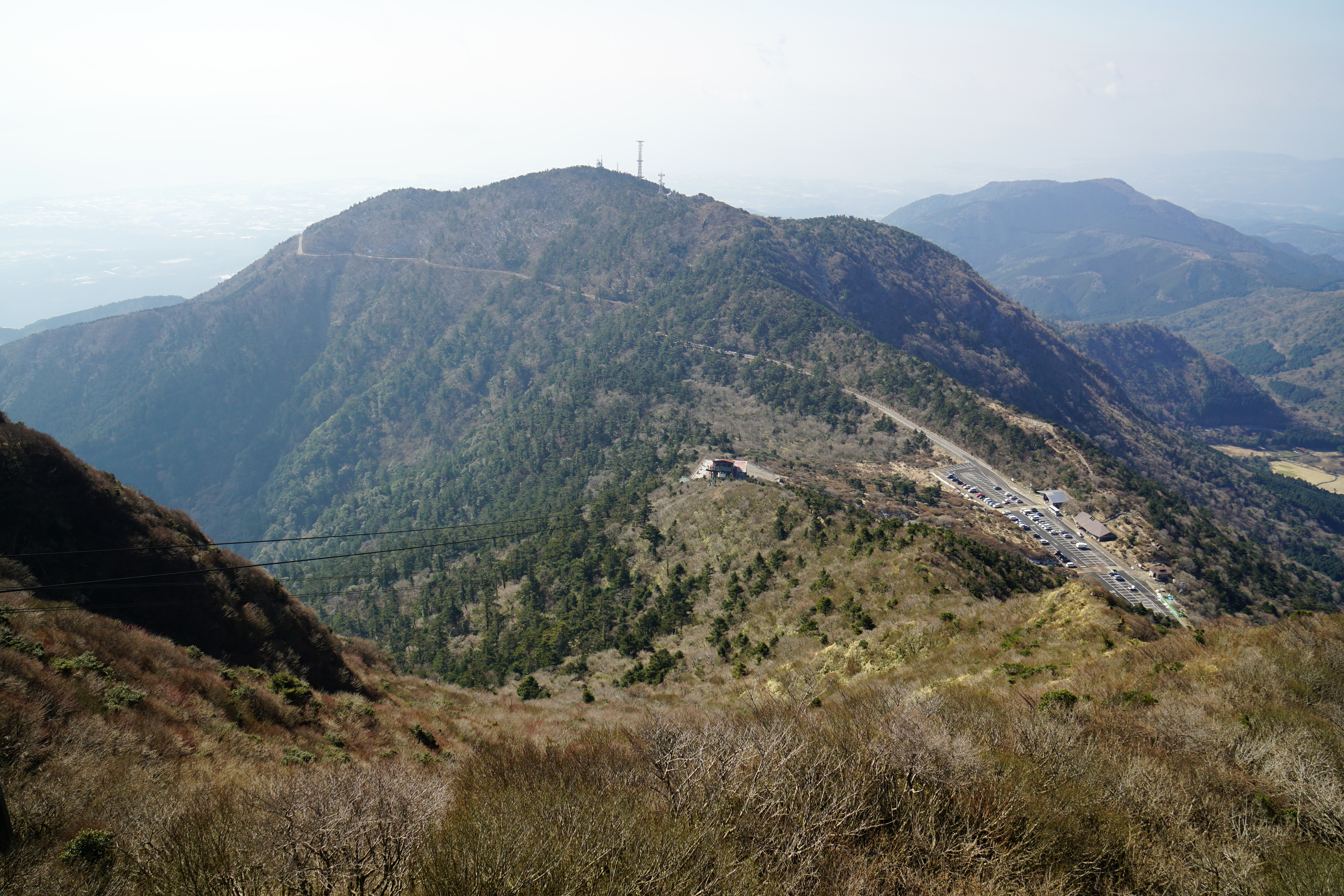 Nita Pass and Mount No-dake are part of Unzen volcanic complex at Unzen City, Nagasaki prefecture, Japan.